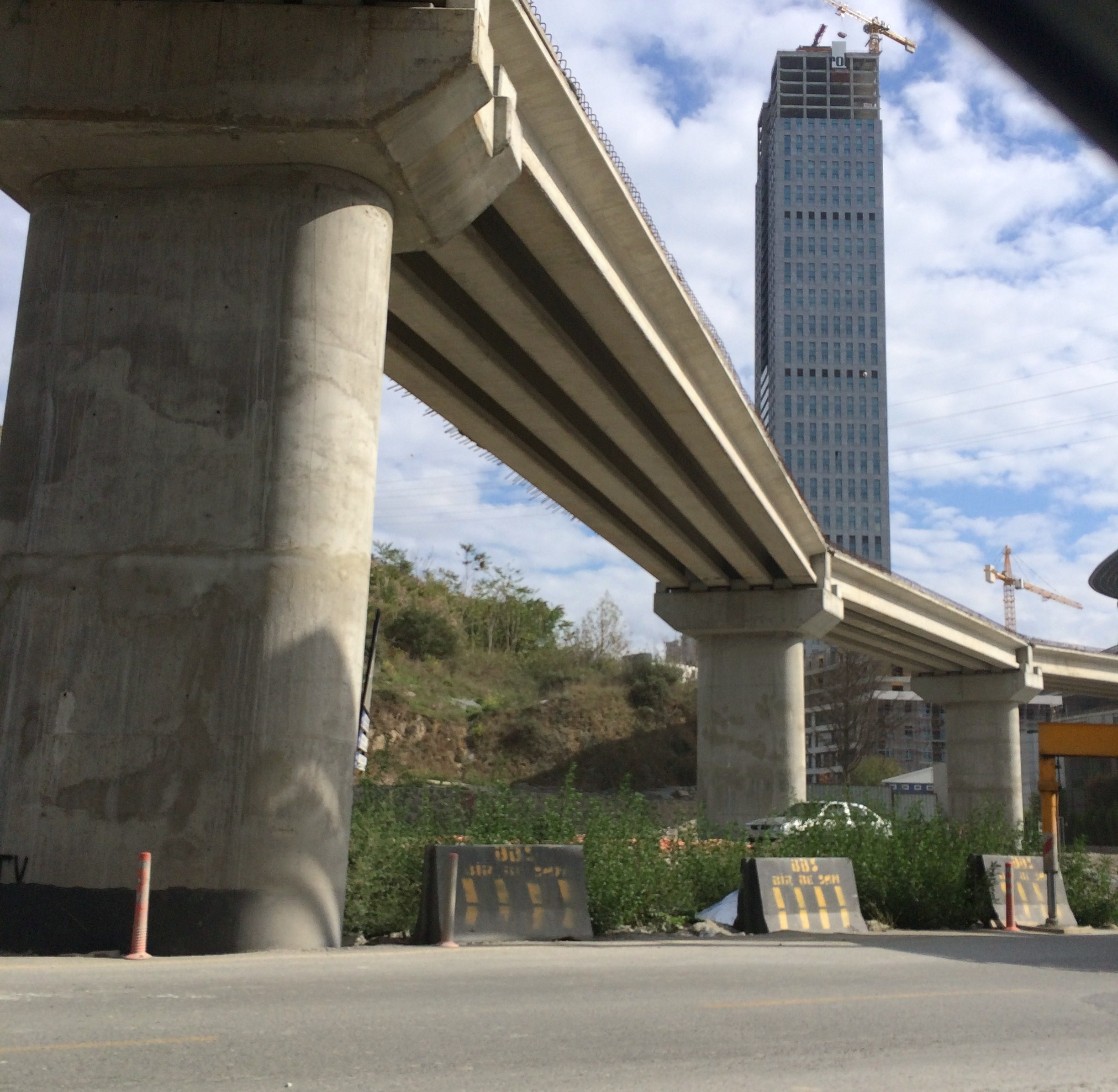 Vadistanbul Monorail